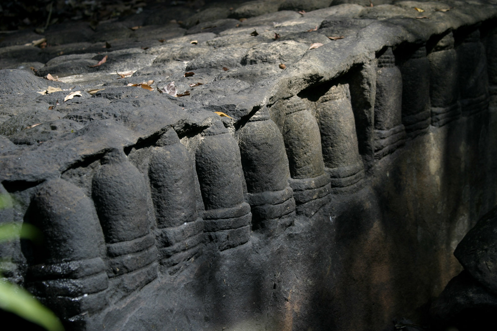 Lingas on two sides of a large river rock.